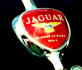 bootlid detail of the Jaguar XK140